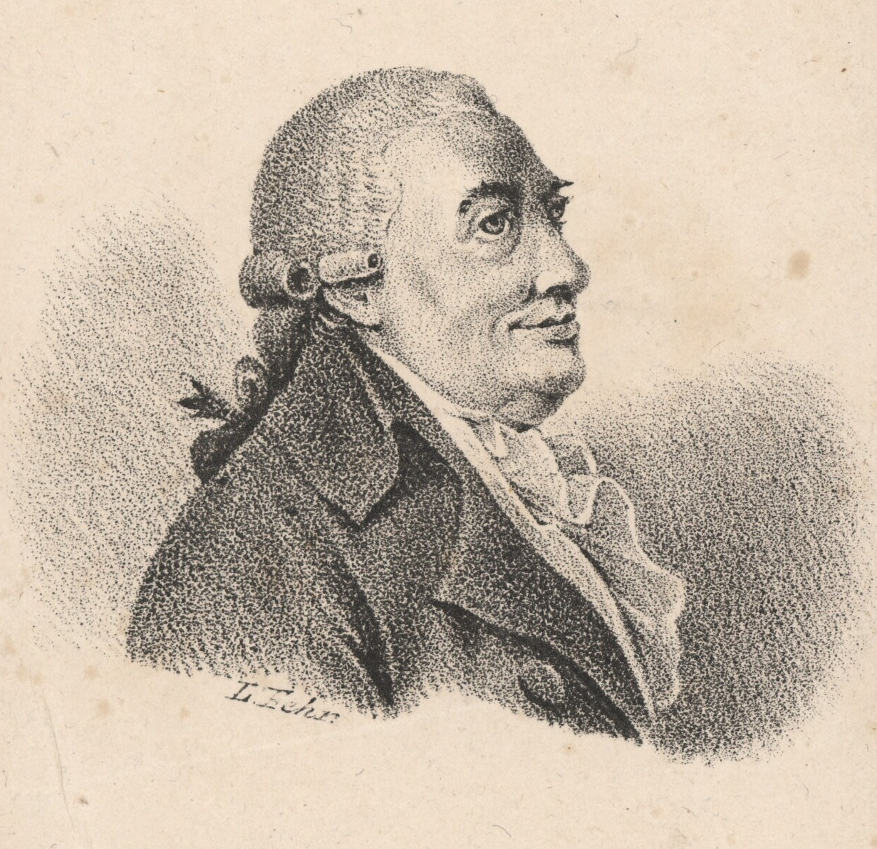 Niels Ryberg (1725-1804), Danish merchant